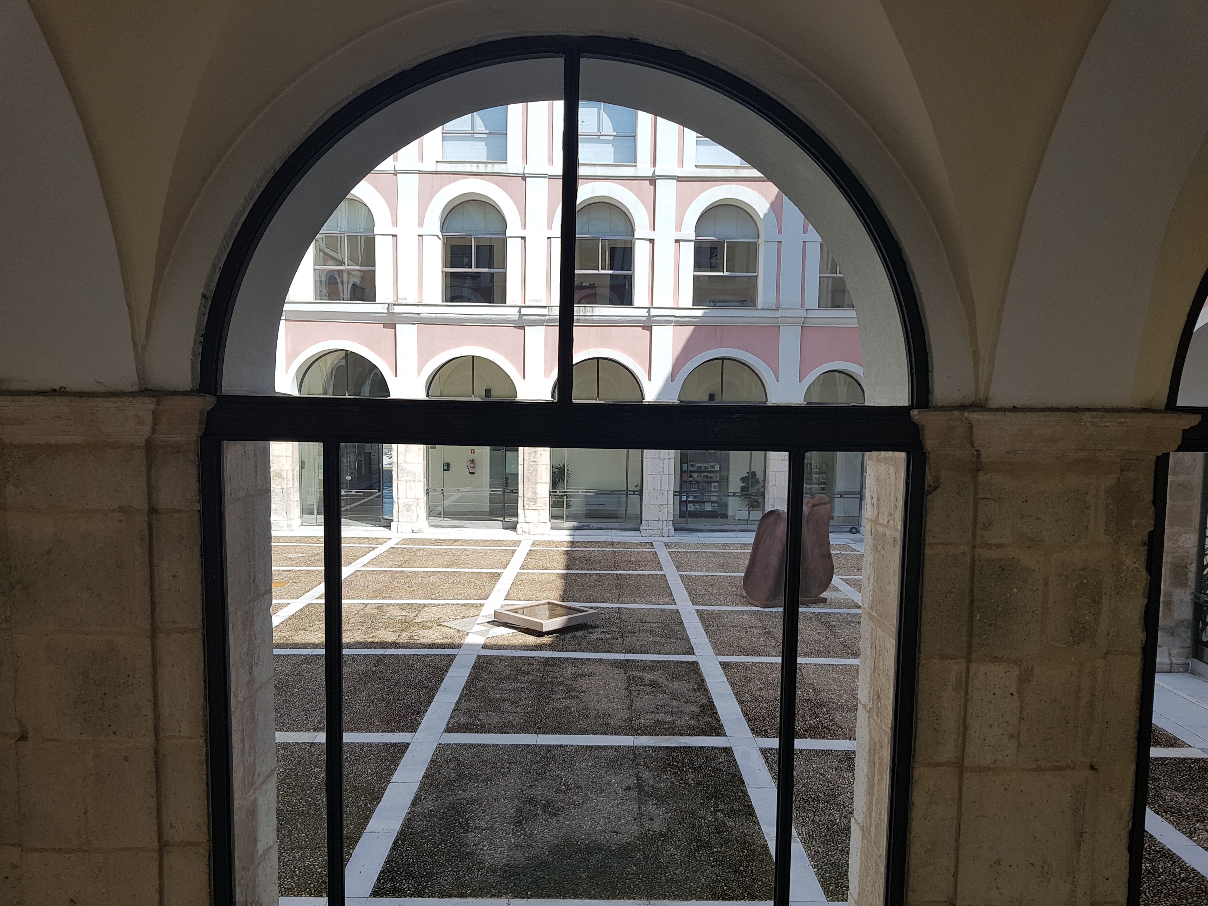 Cloister of the Monastery nuestra Señora del Prado in Valladolid, Spain.